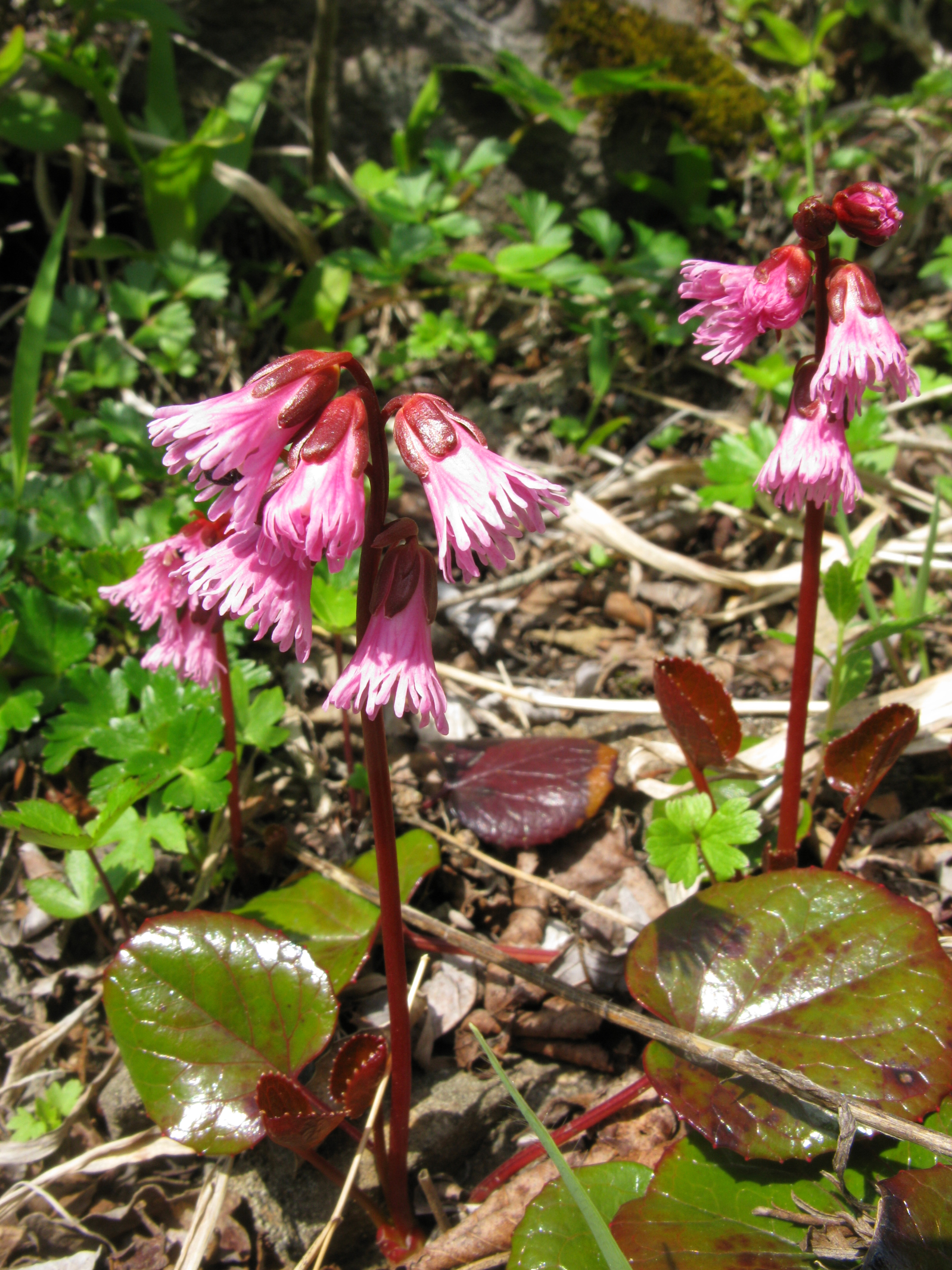 Schizocodon soldanelloides,Aizu area,Fukushima pref.,Japan